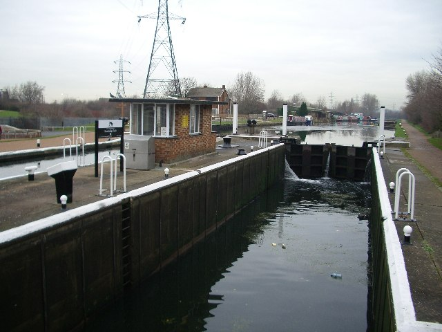 Stonebridge Lock, Lee and Stort Navigation Stonebridge Lock, Tottenham, looking north, with Tottenham Marshes to the left.